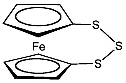 [3]Ferrocenophane